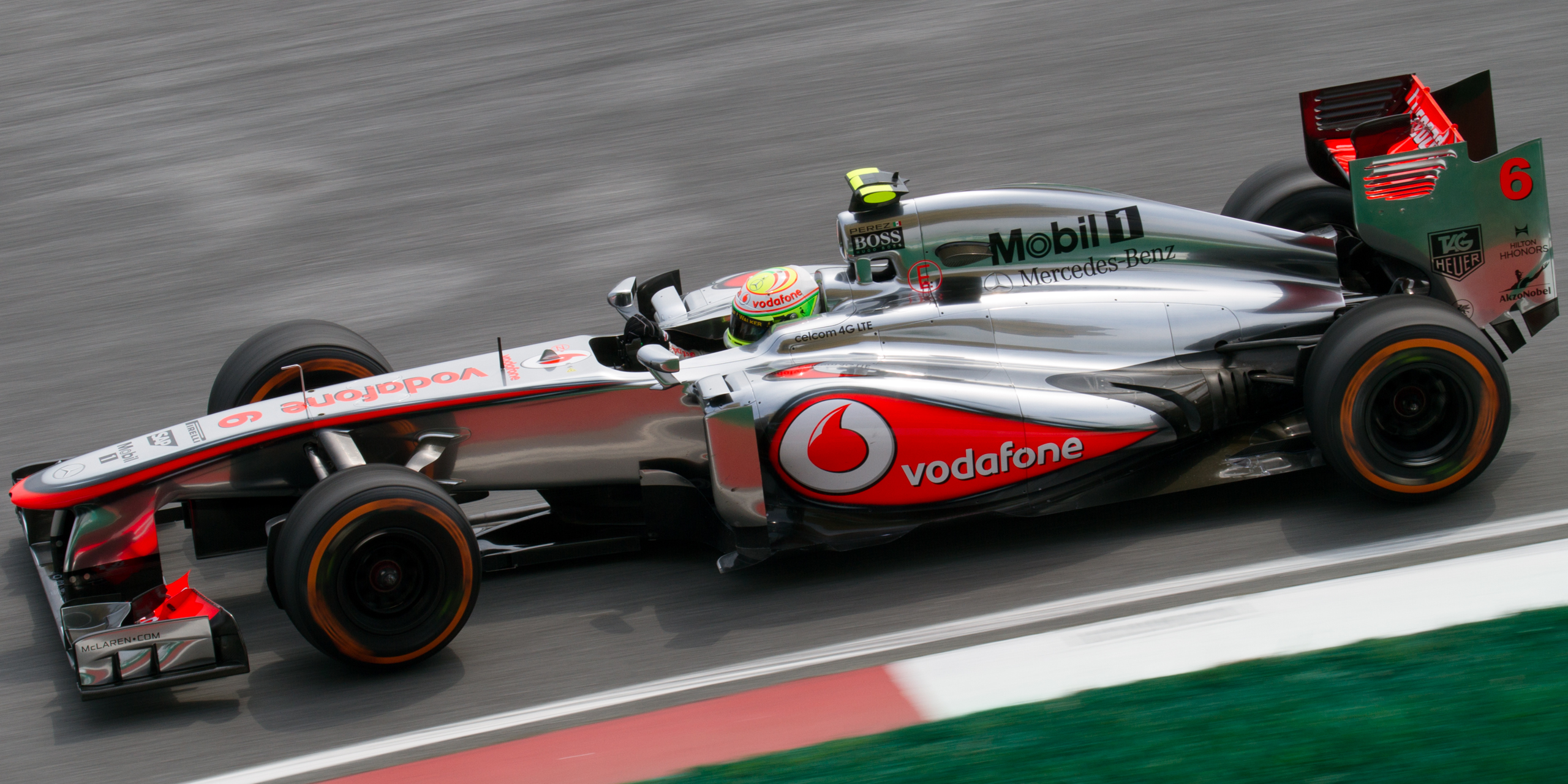 Formula One 2013 Rd.2 Malaysian GP: Sergio Pérez (McLaren) during the first practice session on Friday.